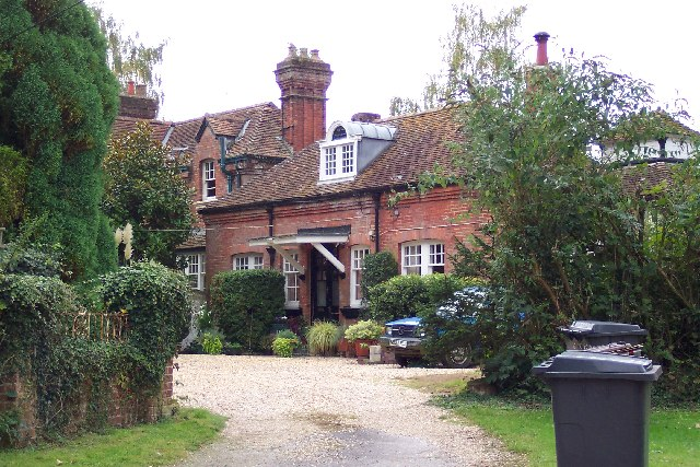 Longparish station. Opened in 1885 this station was built to one of the standard designs of the time of the London & South Western Railway: compare it with that at Worplesdon 45815. It was on the line from Hurstbourne Junction to Fullerton Junction which was built to carry north-south traffic in competition with the Didcot, Newbury & Southampton line which was backed by the rival Great Western Railway. It soon became obvious that the line was a white elephant. Passenger services ceased in 1931 and the track north of Longparish was lifted, although goods trains continued to serve Longparish until 1956. The station is now a private house.